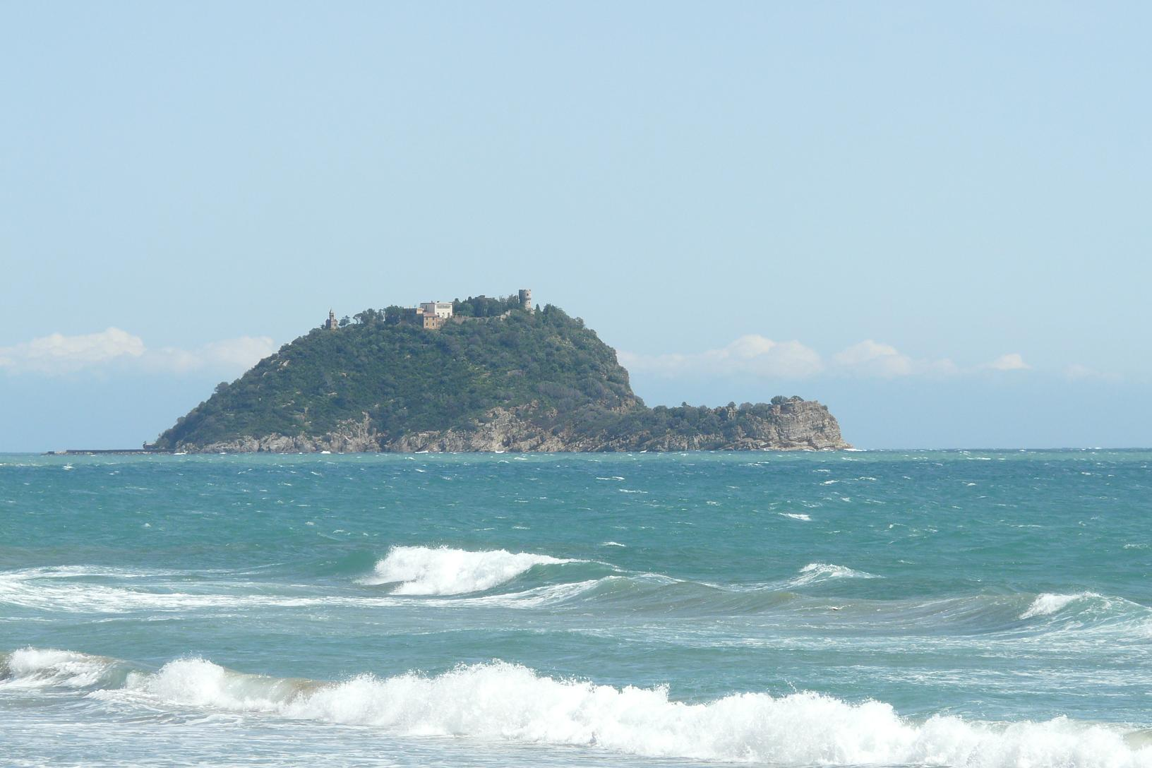 Isola Gallinara This is a photography of Natura 2000 protected area with ID IT1324908